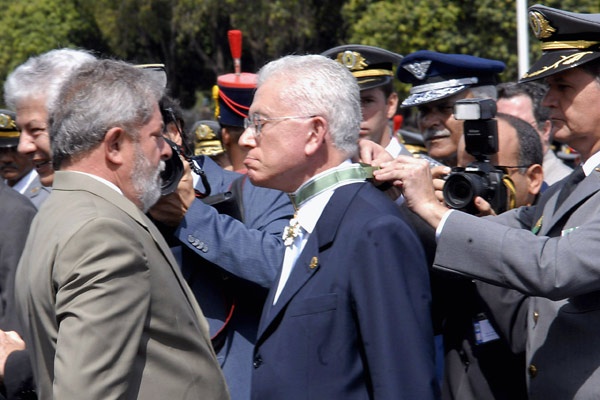 Roberto Unger receiving a medal of honor in 2008 for his service in formulating the National Defense Strategy.